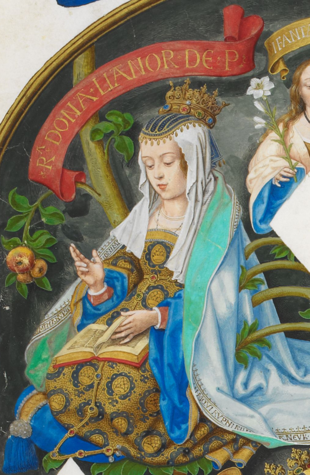 Eleanor of Aragon (1402-1445), Queen consort of Portugal through her marriage to King Edward I of Portugal.